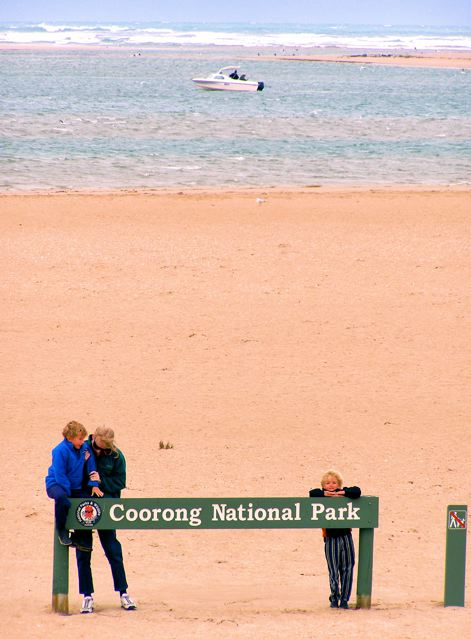 Photograph of the Murray Mouth in Coorong National Park. Photo by D.M. Vernon, 2006